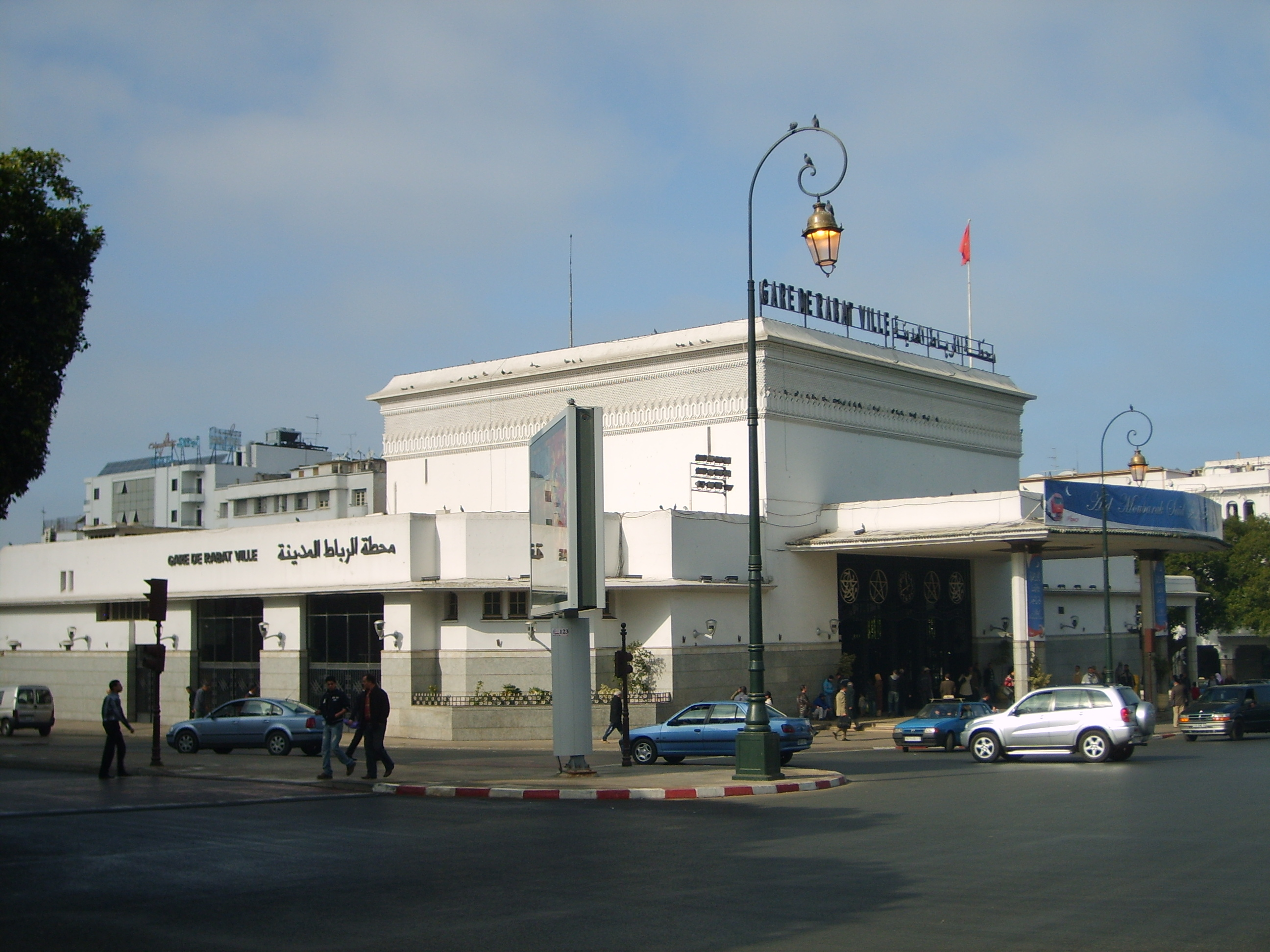 Rabat Ville rail station